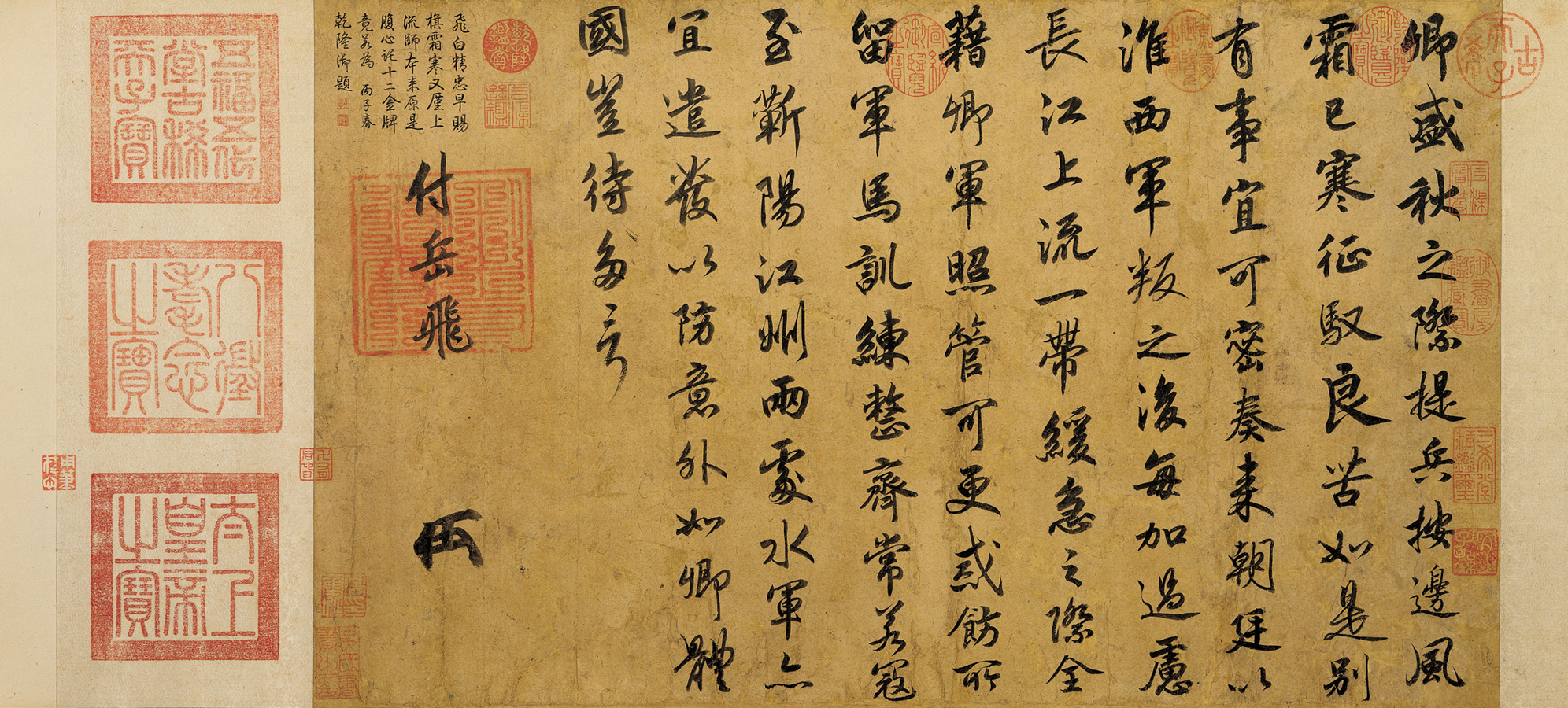 In the autumn of 1137, Yue Fei (1103-1142) led troops on an inspection tour of border defenses against the Jurchen of the Jin. Emperor Gaozong (r. 1127-1162) wrote this imperial missive in response to Yue Fei's report, praising and exhorting his steadfast loyalty to the country. The calligraphy is done in regular script with elements of running script.